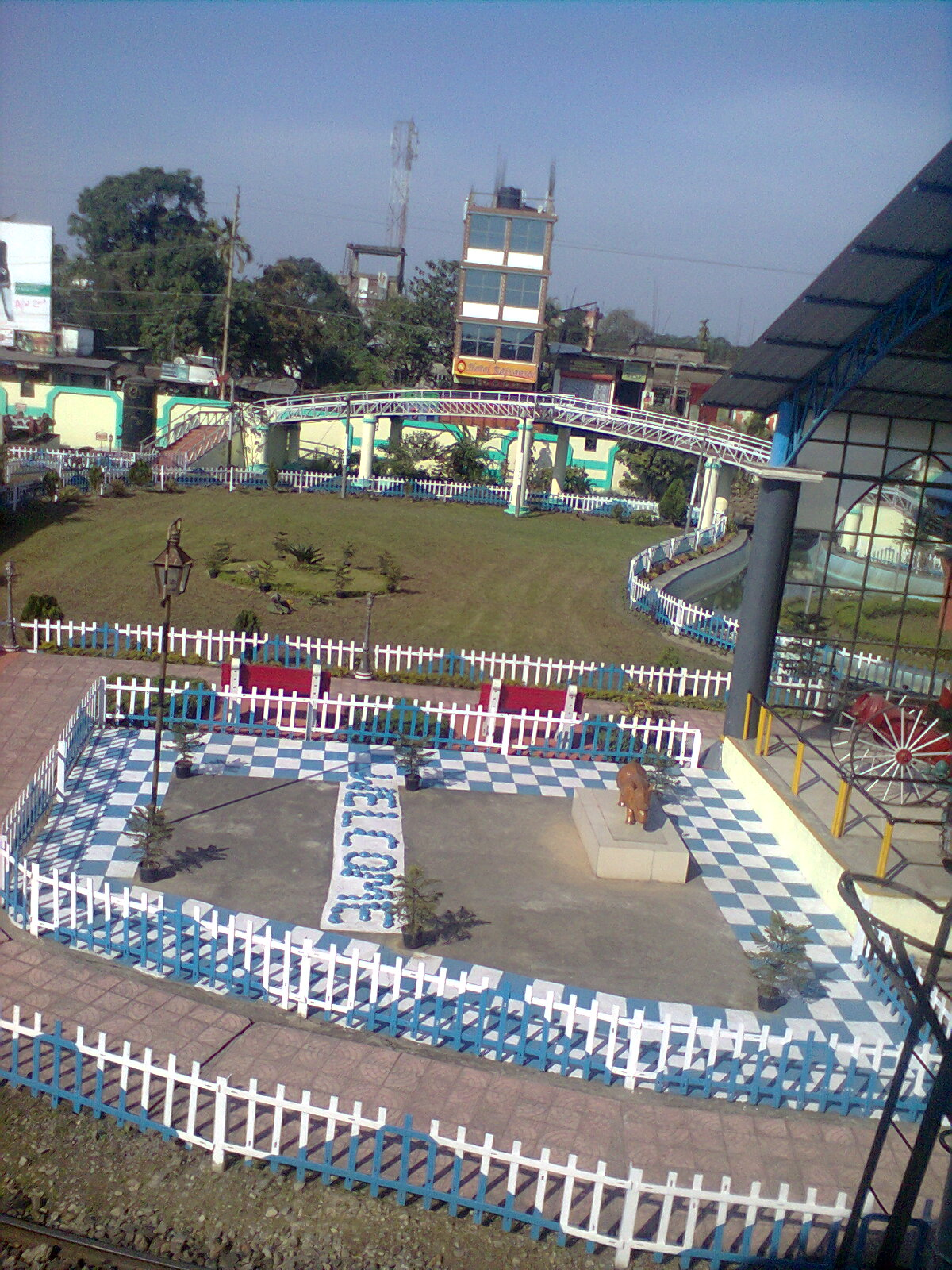 Railway heritage park, Tinsukia